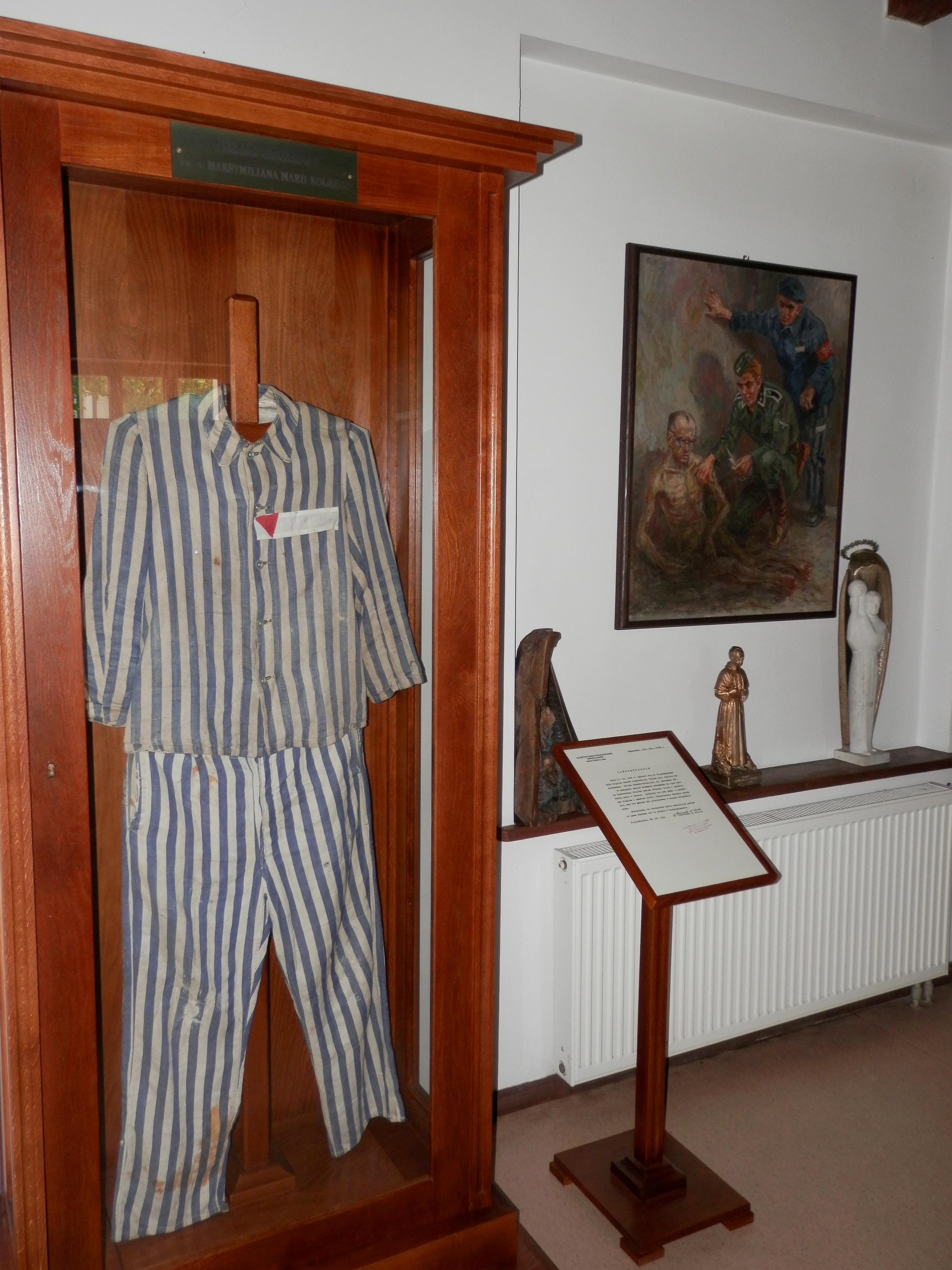 Museum of St. Maximilian Kolbe, opened in 1998 (interior)